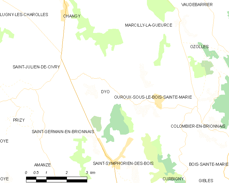 Map of French municipality